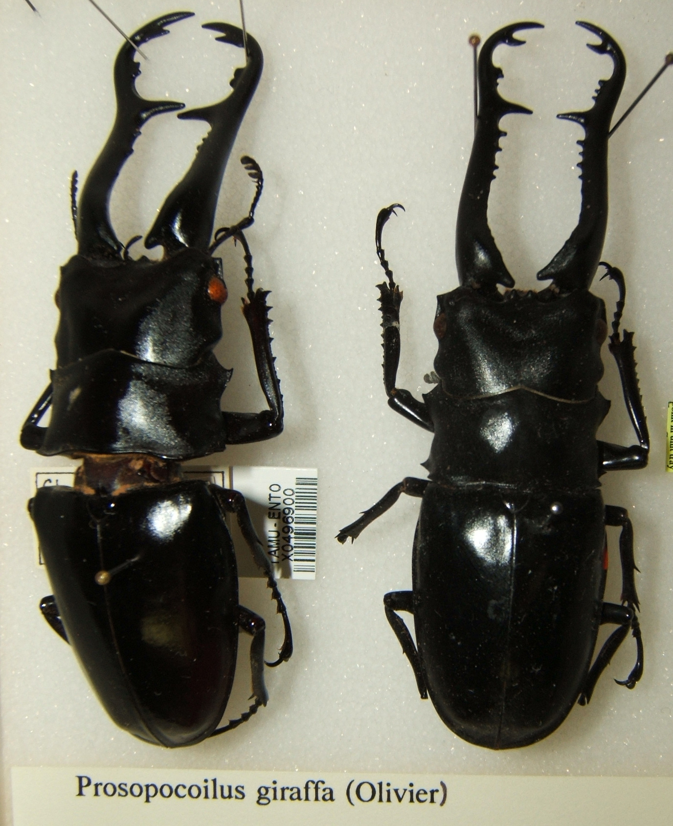 Prosopocoilus giraffa adult taken by Shawn Hanrahan at the Texas A&M University Insect Collection in College Station, Texas.